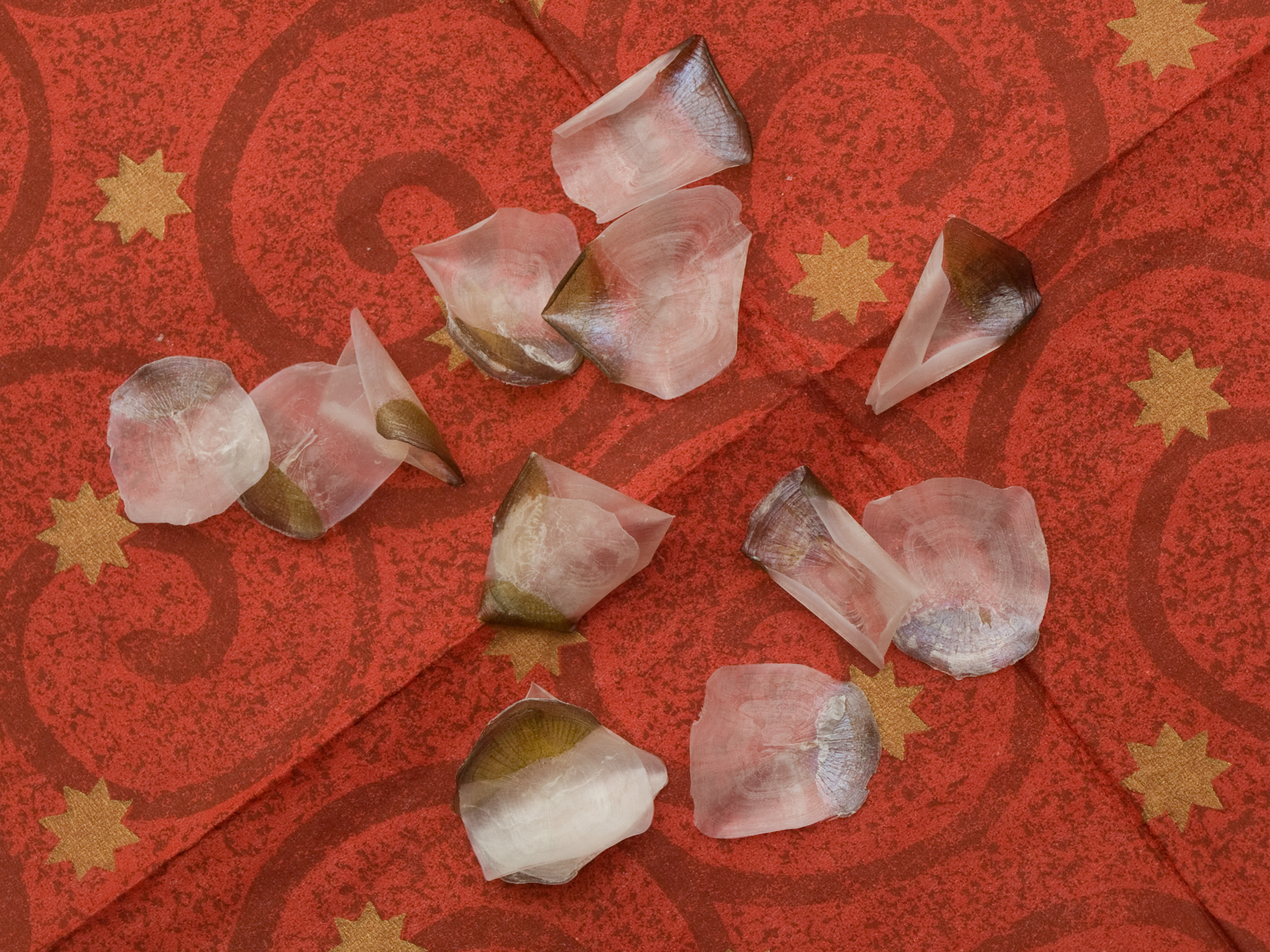 Carp scales, tradicional Czech christmas